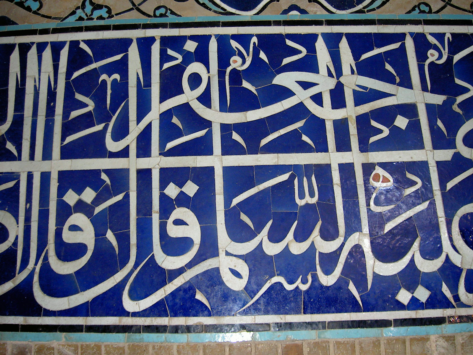 Inscription on the wall of the Sheikh Lotf Allah Mosque.